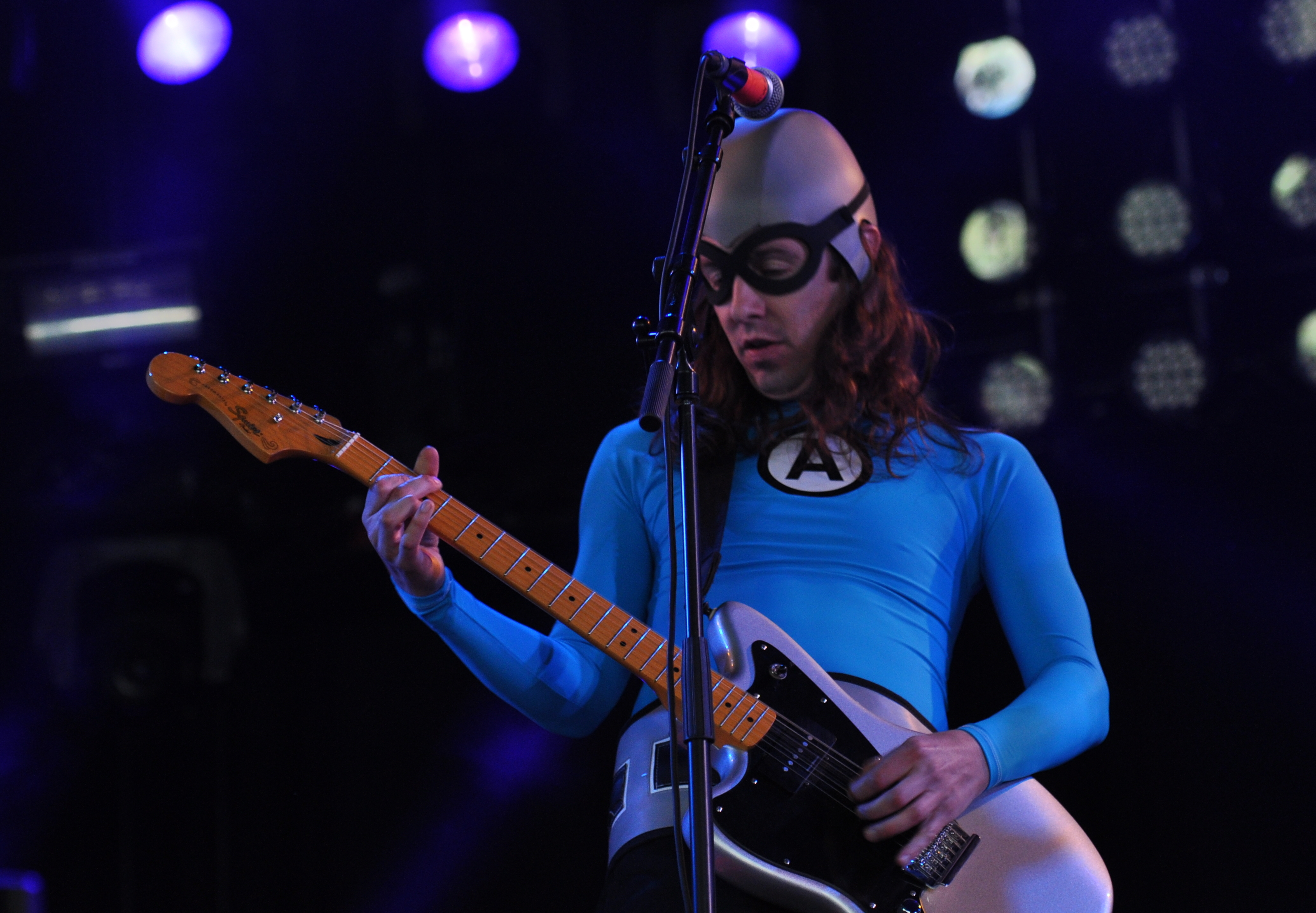 The Aquabats at Groezrock 2013